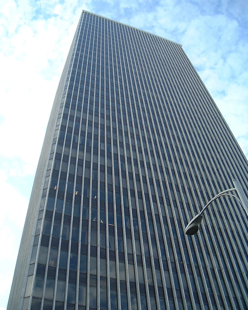 I shot this image of the Westin Building on February 6, 2007 from the northeast corner of 6th and Virginia. I release this image into the public domain.